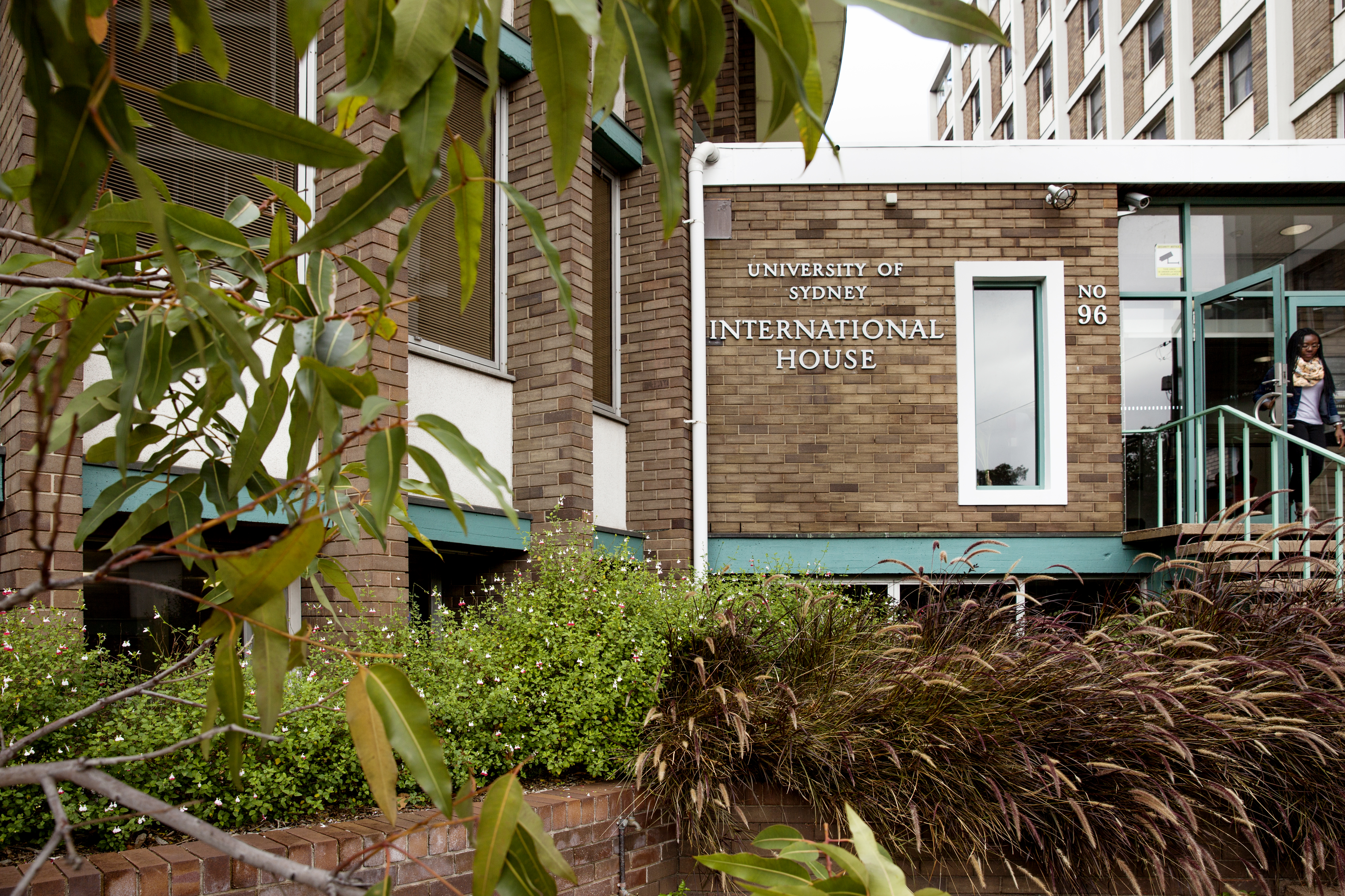 View of the reception area of International House, taken from City Road.